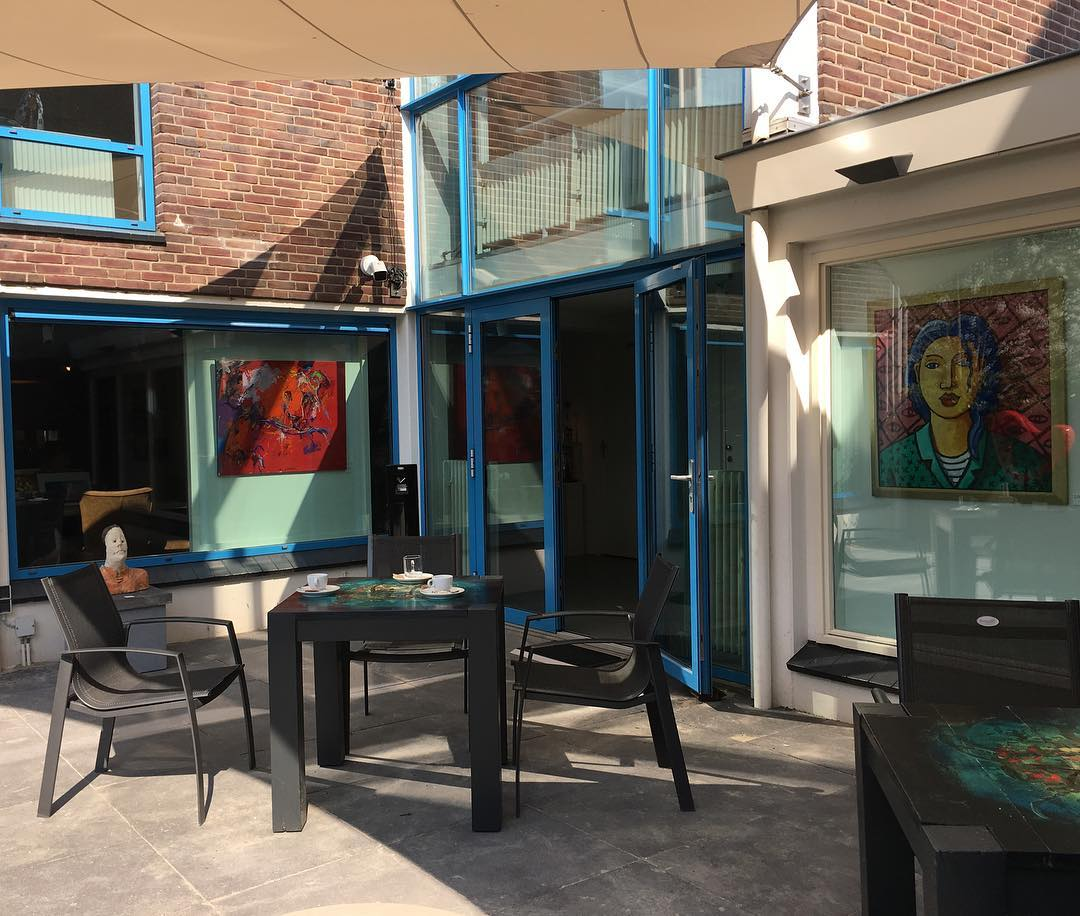 Exposition at Musiom